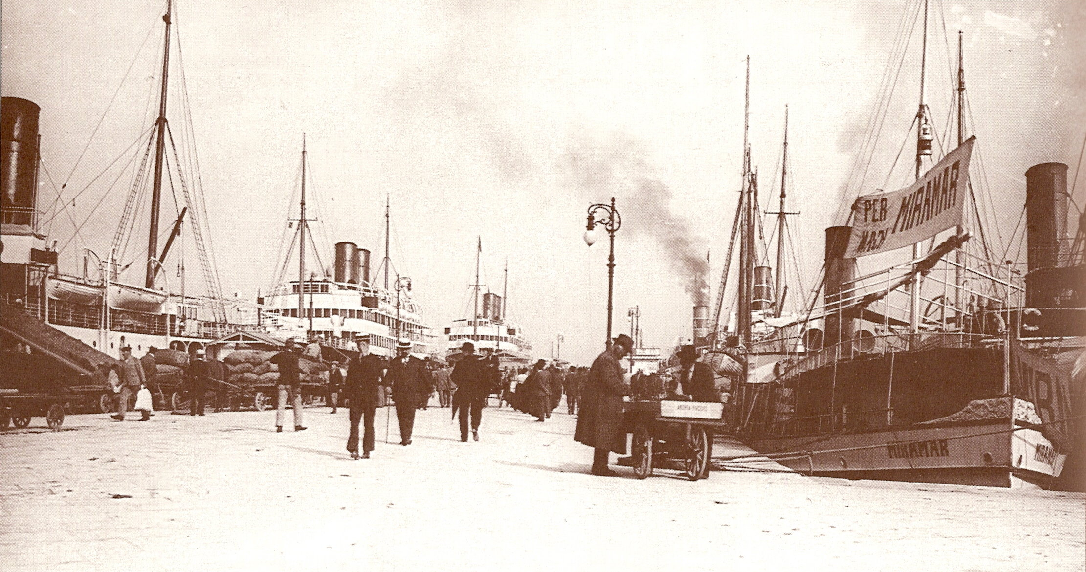 Molo San Carlo in Trieste (today Molo Audace)